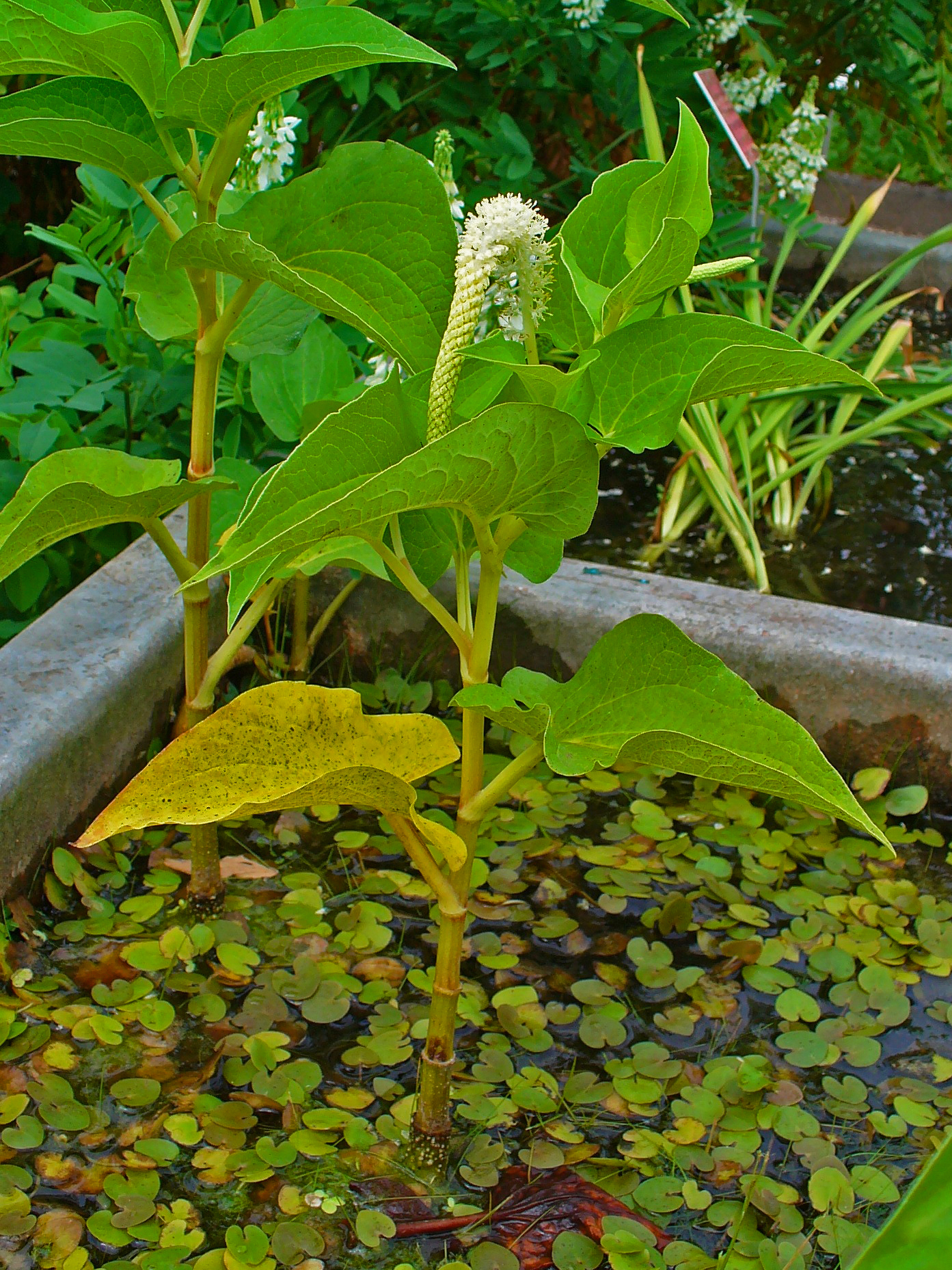 Saururus cernuus, Saururaceae, Lizard's tail, Water-dragon, Swamp Root, habitus. Botanical Garden KIT, Karlsruhe, Germany.